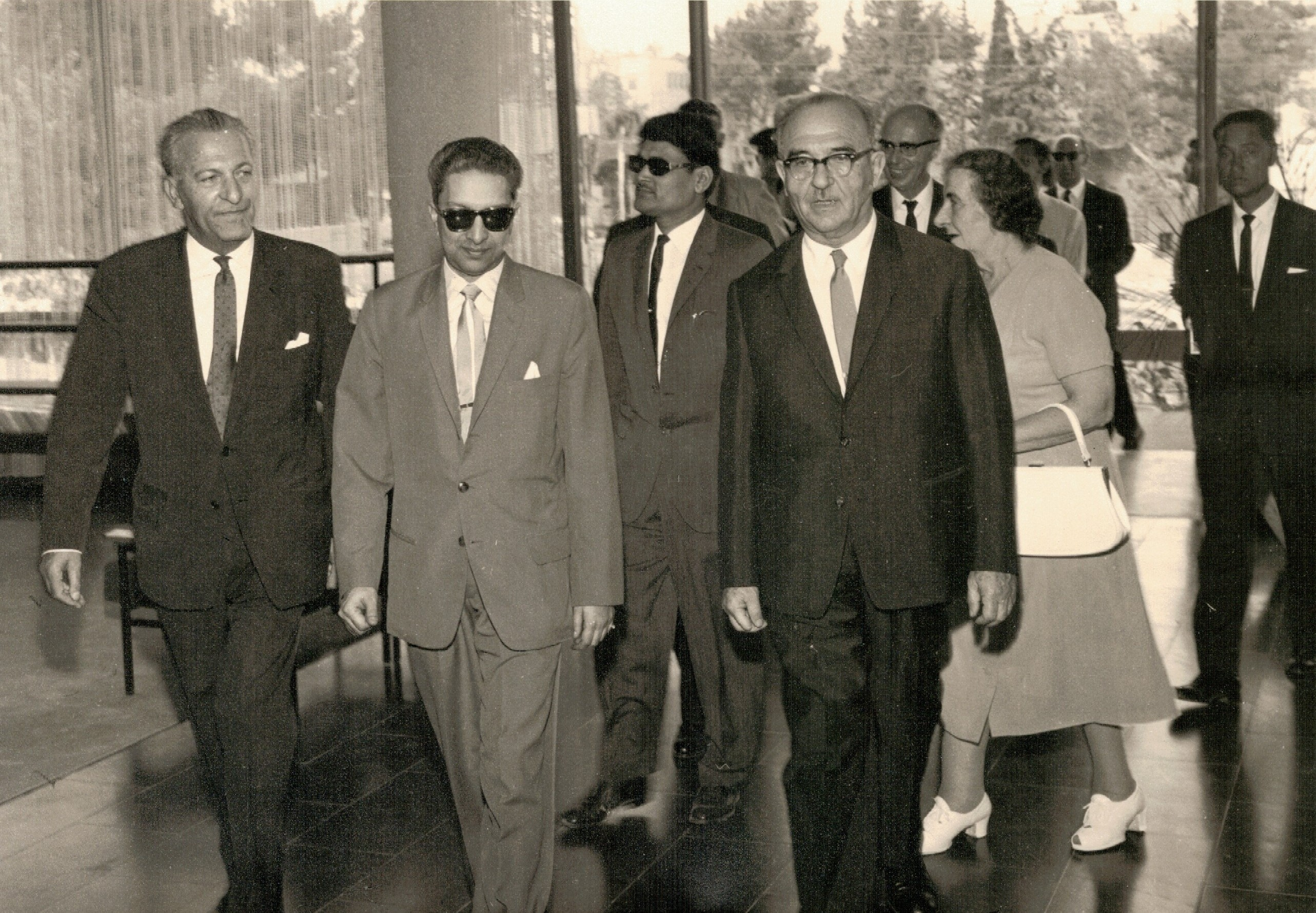 King Mahendra of Nepal with Israeli Prime Minister Levi Eshkol, September 10, '63.